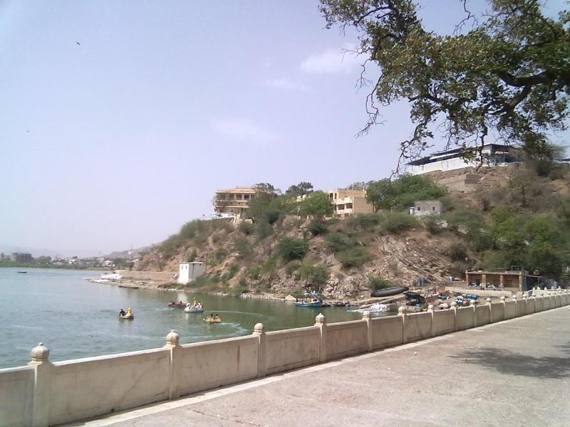 The Anasāgar Lake PHOTOGRAPHED BY FATEH.RawKEy